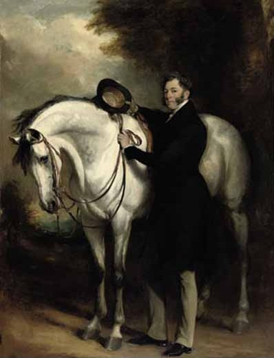 Portrait of Thomas Dundas, 2nd Earl of Zetland (1795-1873)